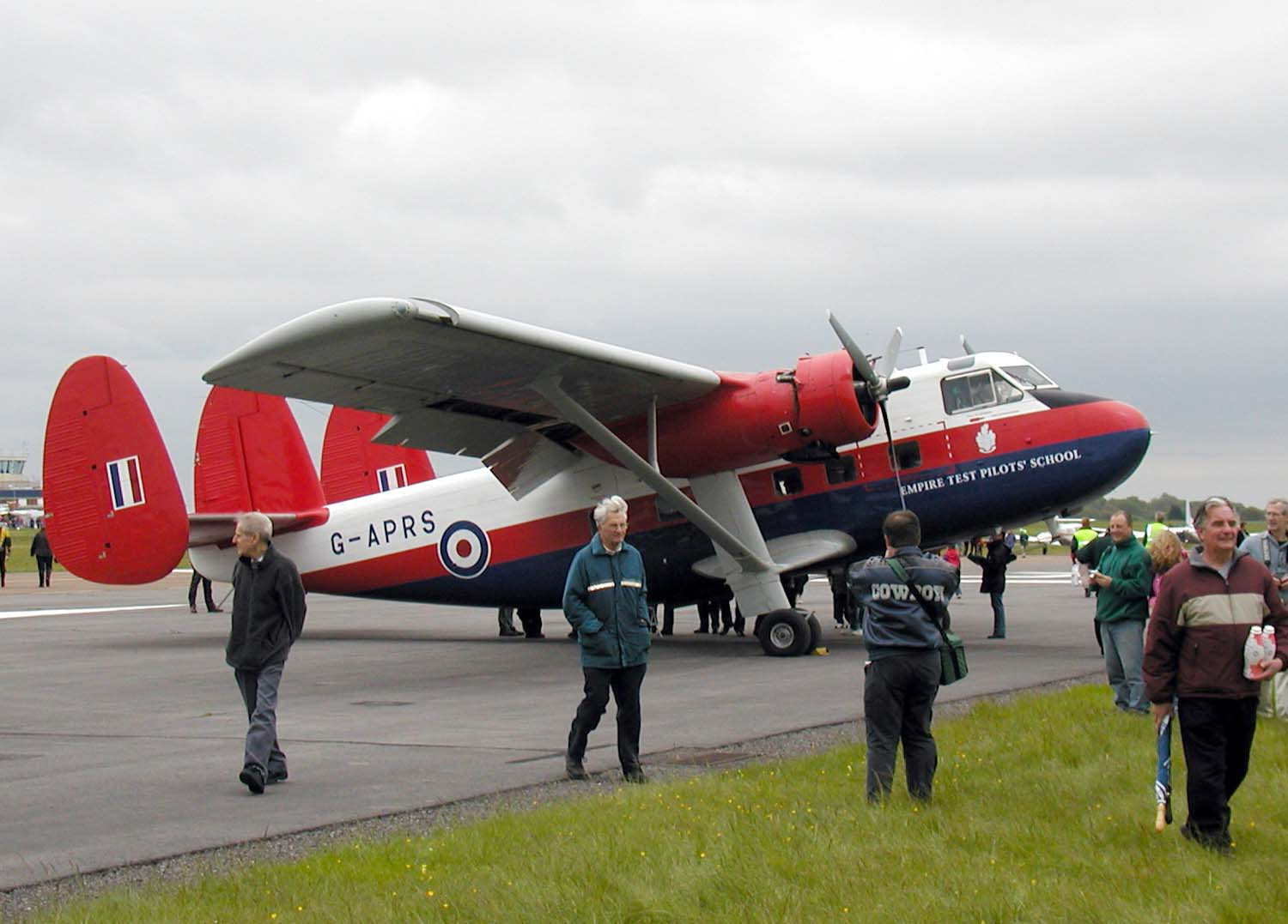 Scottish Aviation Twin Pioneer (G-APRS) at Kemble airfield, Kemble, Gloucestershire, England . Photographed by Adrian Pingstone in 2003 and released to the public domain.